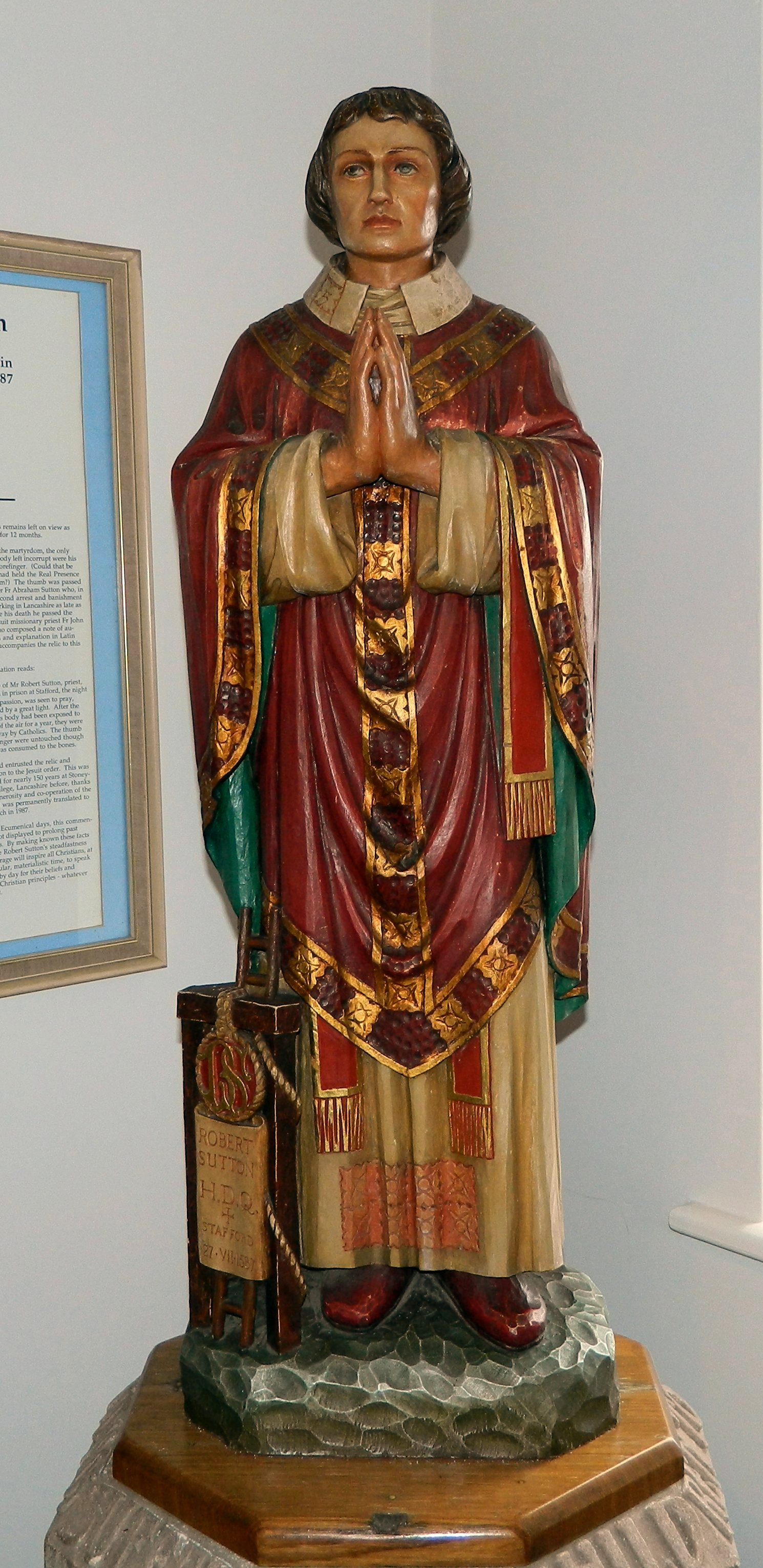 Statue of Bl. Robert Sutton over the font of Our Lady of Victories Roman Catholic Church, Lutterworth; the church where his relics are now housed.